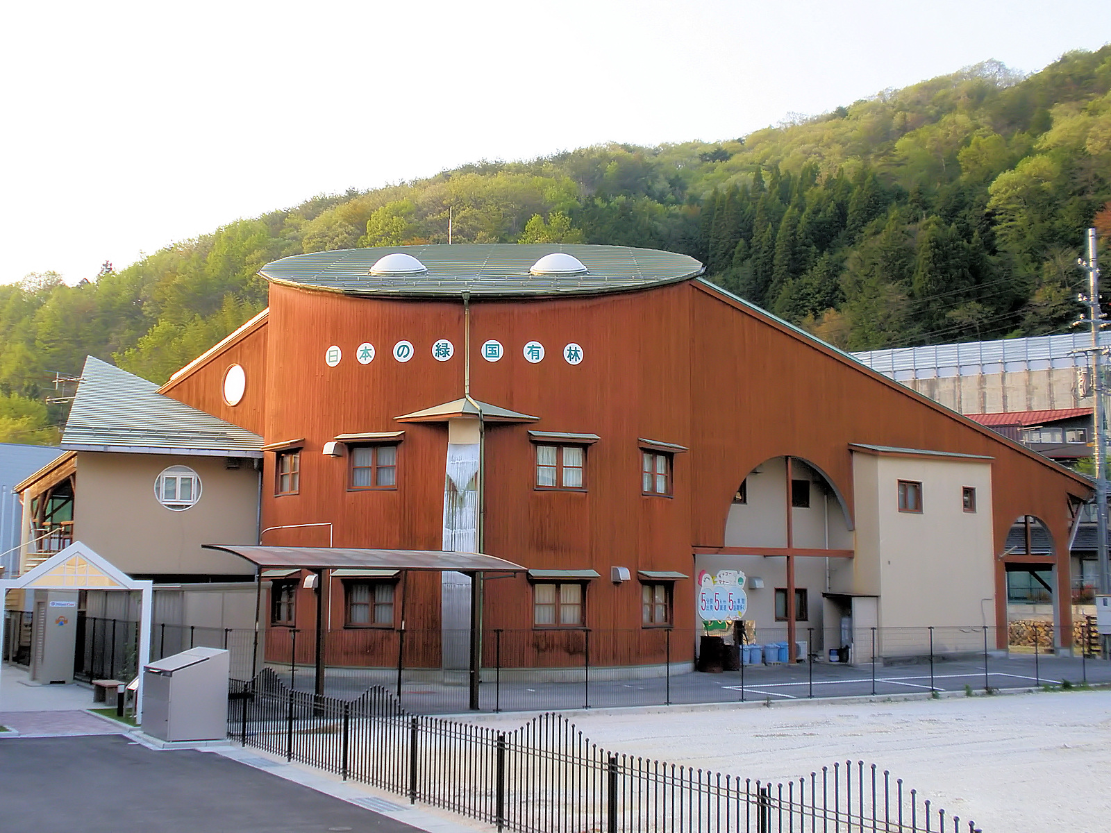 Forestry Technical Service Center of the Kinki-Chugoku Regional Forest Office, in Niimi, Okayama prefecture Okayama District Forest Office / Niimi, Osakabe, Kōjiro, and Niizato Forest Office